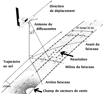 Scatterometer instruments on board satellites in French.